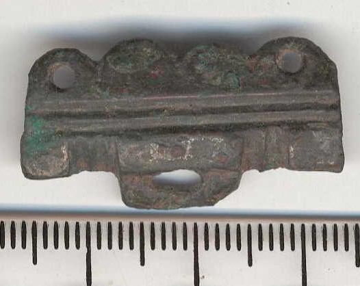 Copper alloy catch-piece sleeve clasp. Rectangular reinforcing bar with a pair of three transversely incised lines. Two vertically moulded lines seperate the reinforcing bar from the attachment end. Two rounded lugs for attachment with a pair of rounded lugs between. Rectangular catchpiece intact. Probably the partner to LIN-776752